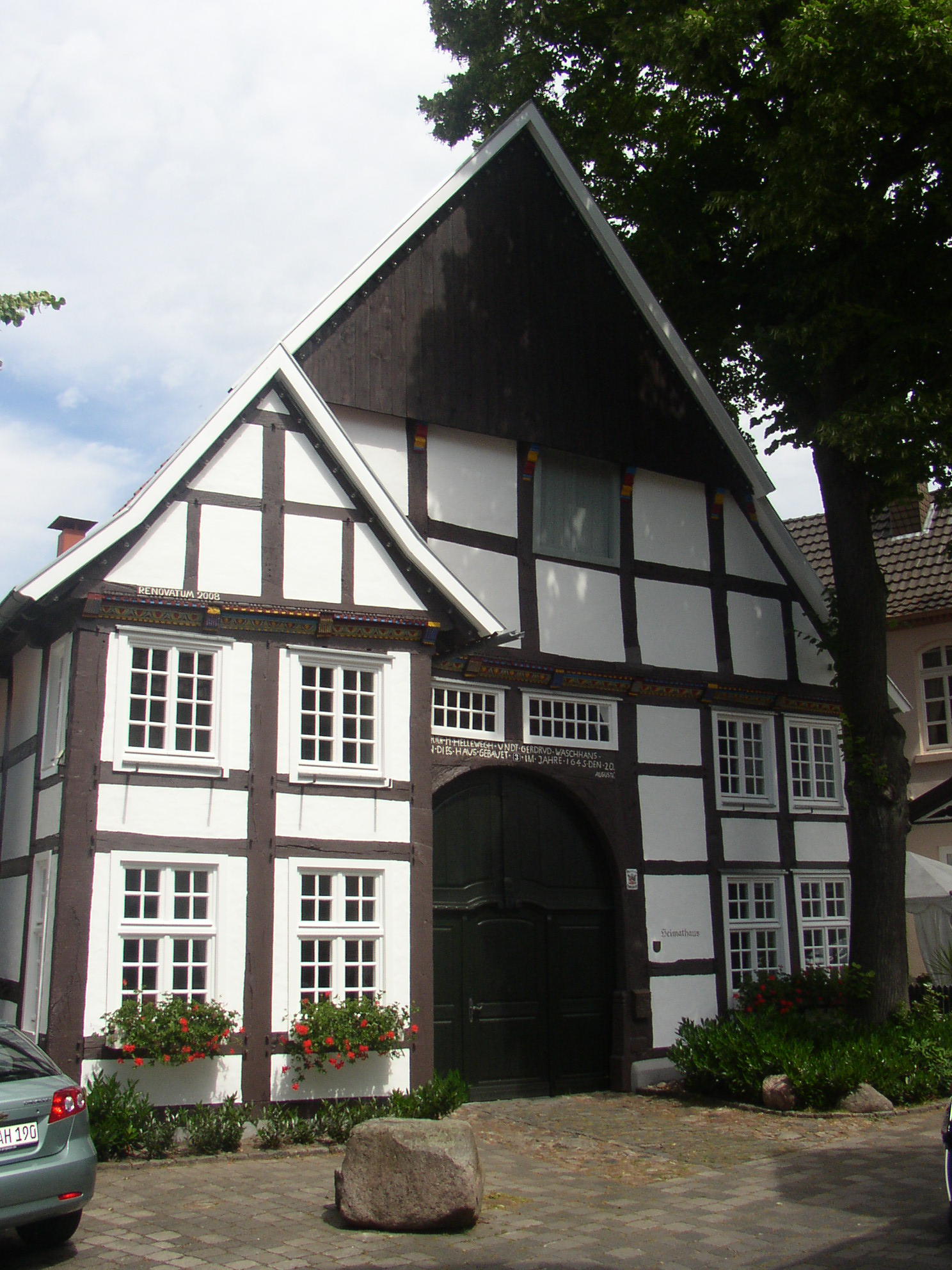 heritage house in Rietberg, Germany